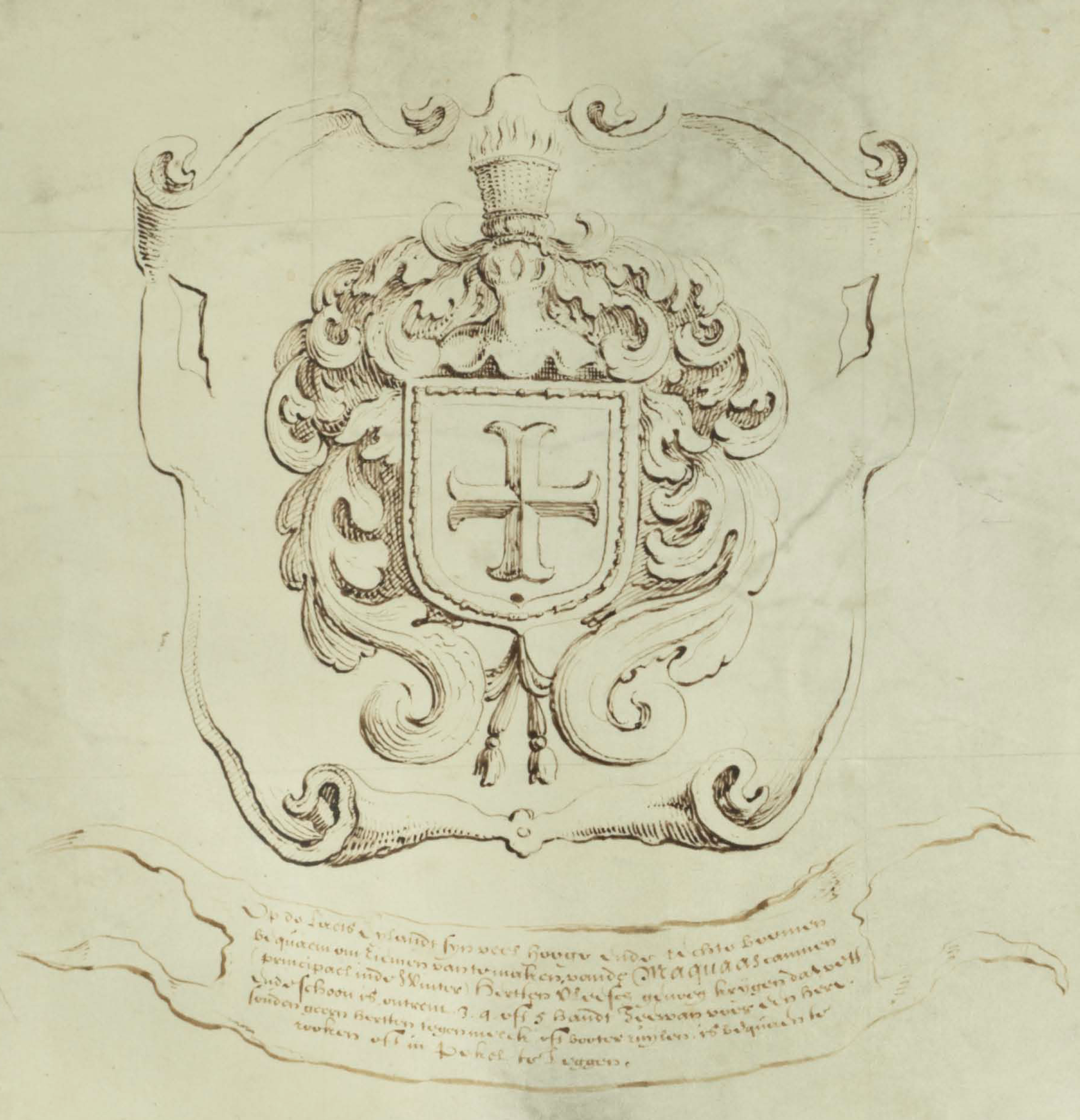 Center scroll of the Map of Rensselaerswyck, along with the coat of arms of Kiliaen van Rensselaer